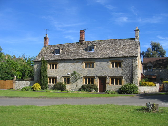 Honington. A typical house in this delightful village, past winner of the best kept village competition.